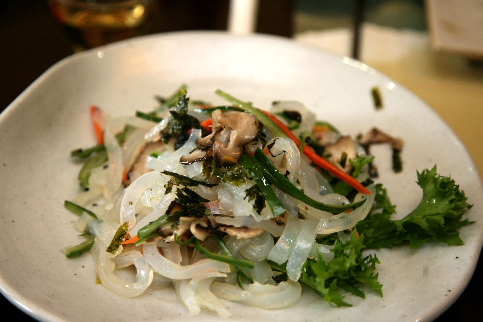 Korean cuisine at a restaurant, South Korea